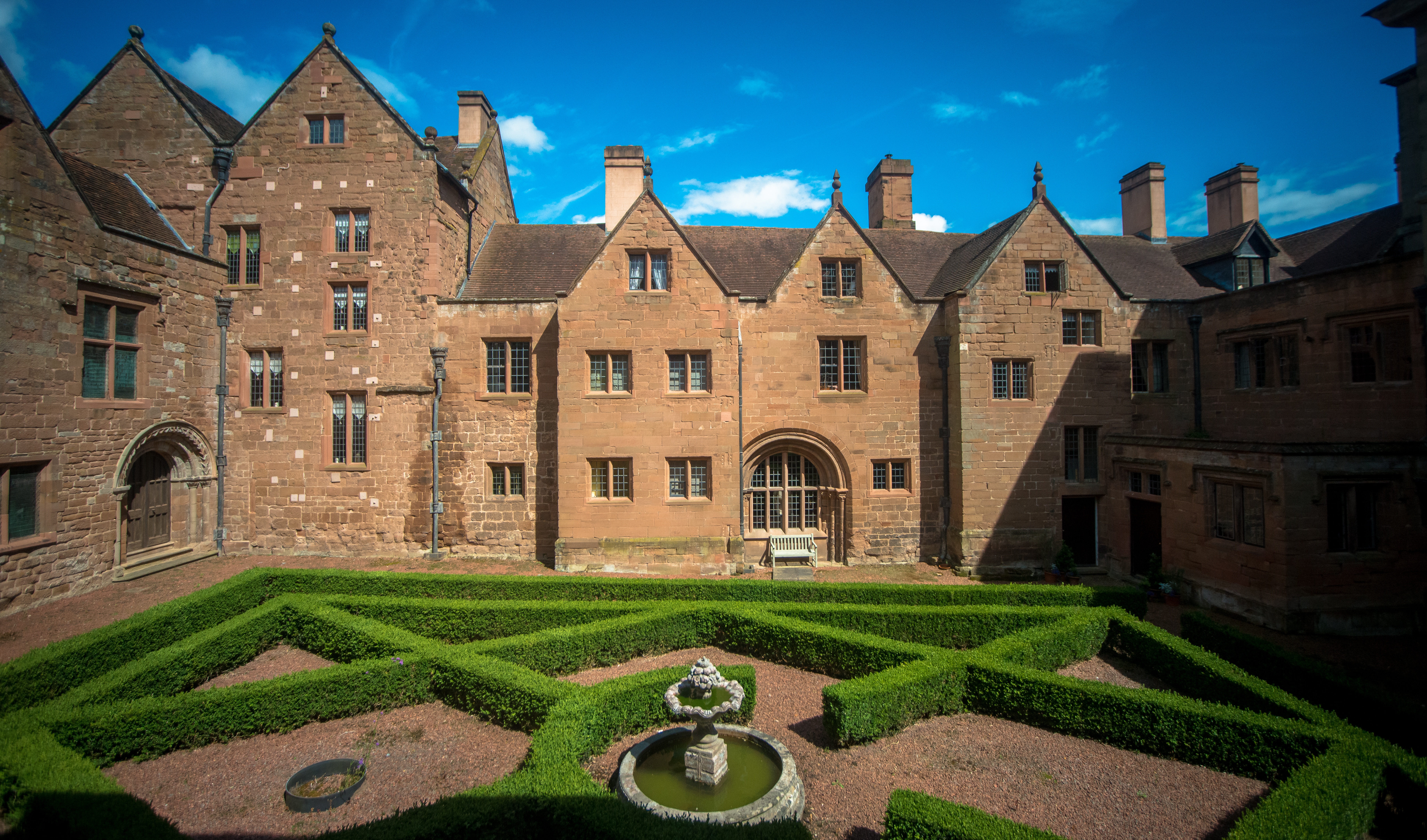 The Elizabethan part of Stoneligh Abbey